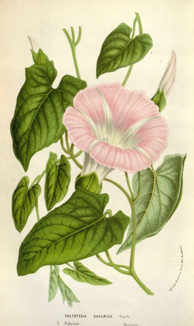 Calystegia sepium subsp. spectabilis, as Calystegia dahurica